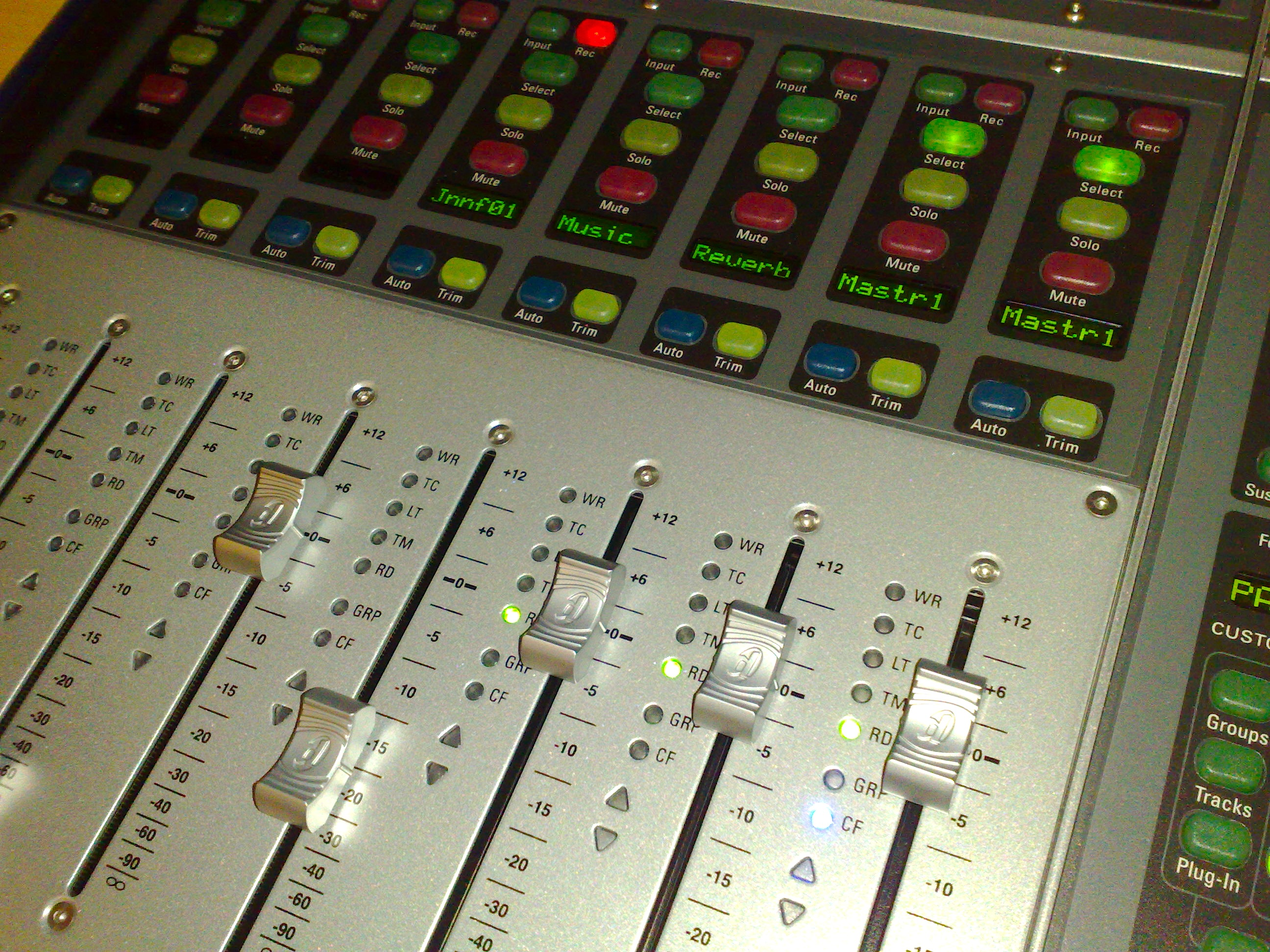 Digidesign ICON D-Command (closeup)